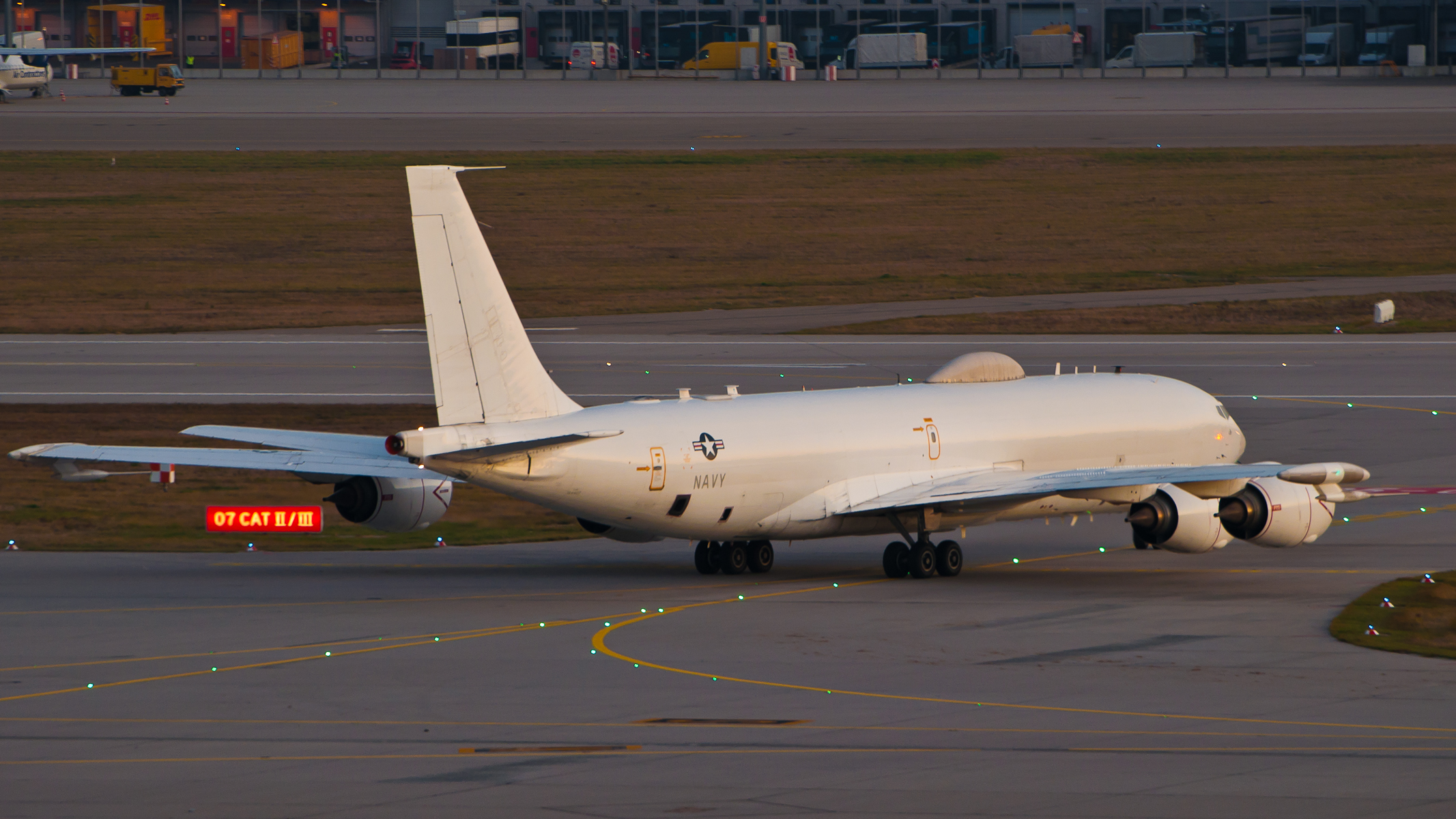 USA - Navy Boeing E-6B Mercury, Registration: 164407 - Stuttgart Airport (EDDS/STR)